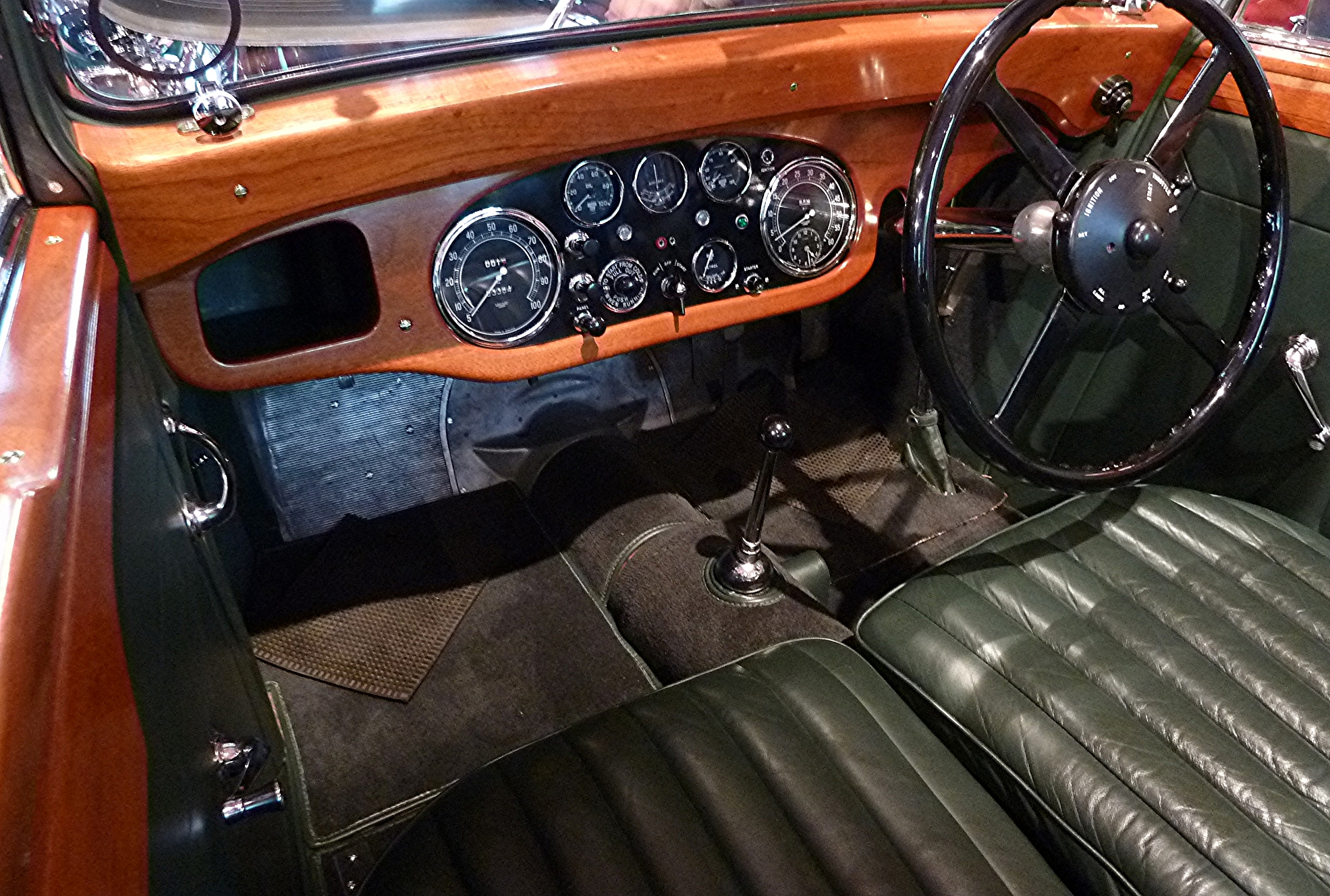 Instrument panel 1935 Alvis Speed 20 SC Lancefield drophead coupé BYY 902 (DVLA) first registered 13 August 1935, 2655cc